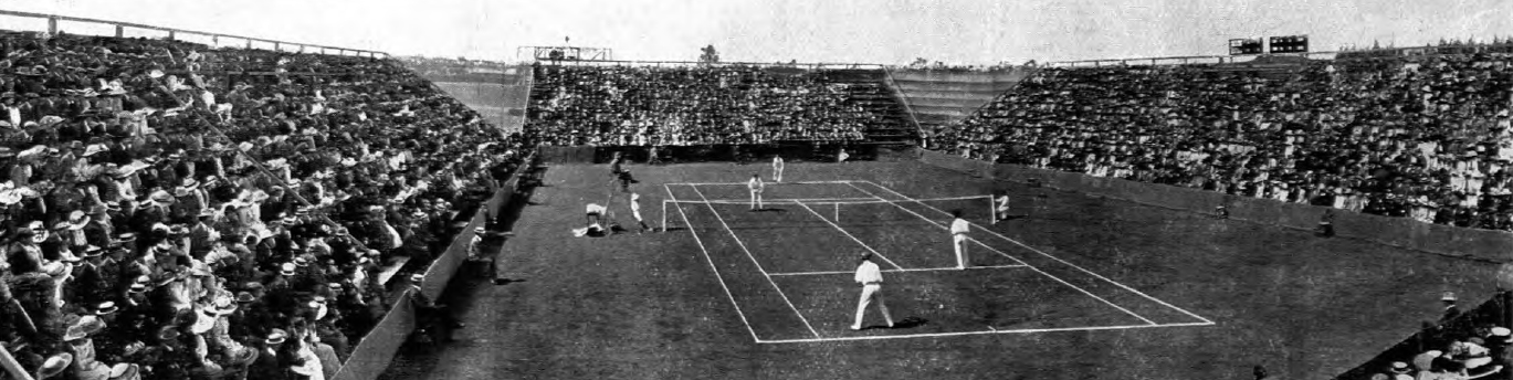 1911 Davis Cup tennis competition. Men's double during the Challenge round in New Zealand.